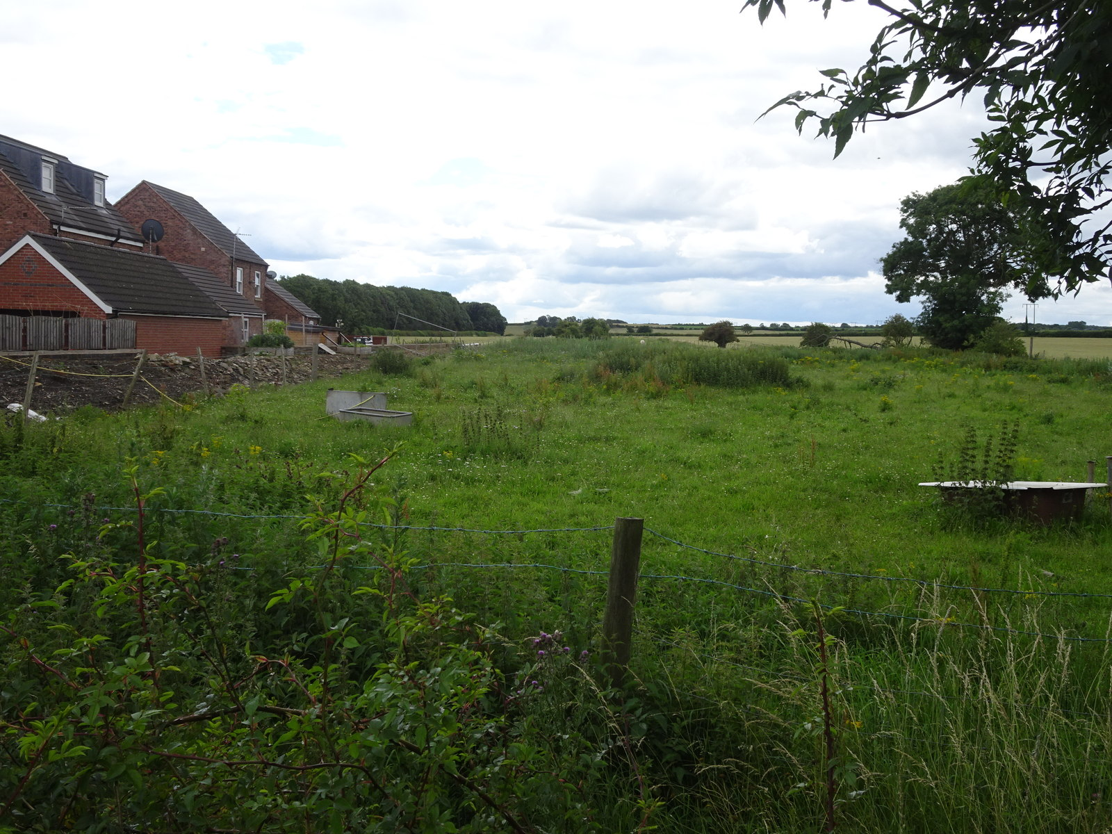 Pickburn & Brodsworth railway station (site), YorkshireOpened in 1894 by the Hull and Barnsley Railway on their branch from Wrangbrook Junction to Denaby & Conisbrough, this short-lived station closed to passengers in 1903. View south towards the station, Sprotborough and Denaby & Conisbrough. At this point it was on an embankment stretching away from the camera point with the single platformed wooden station being just to the right of the track. The line closed to all traffic in the late 1960s and the embankment has been removed at some point since then.